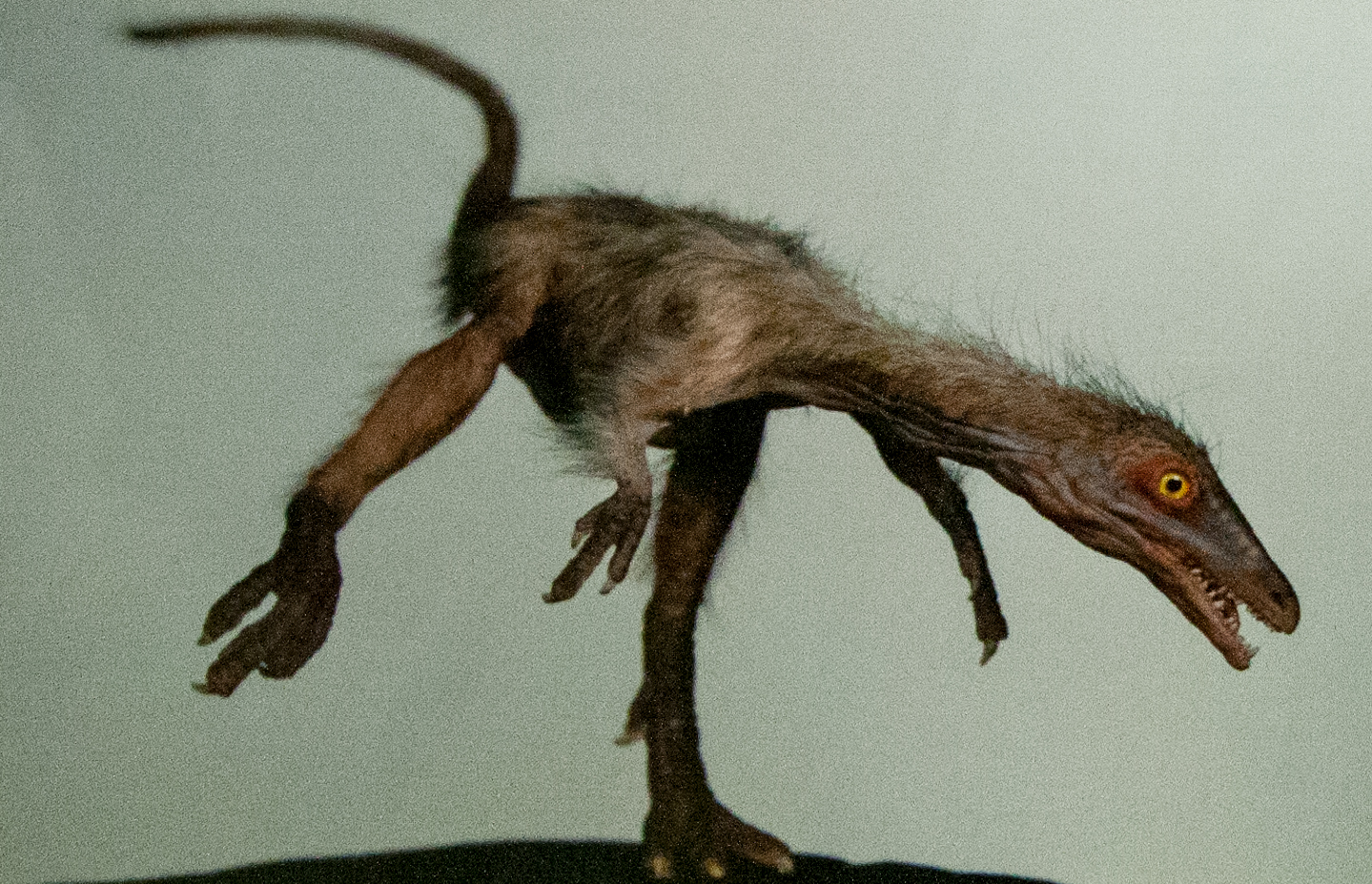 Compsognathus